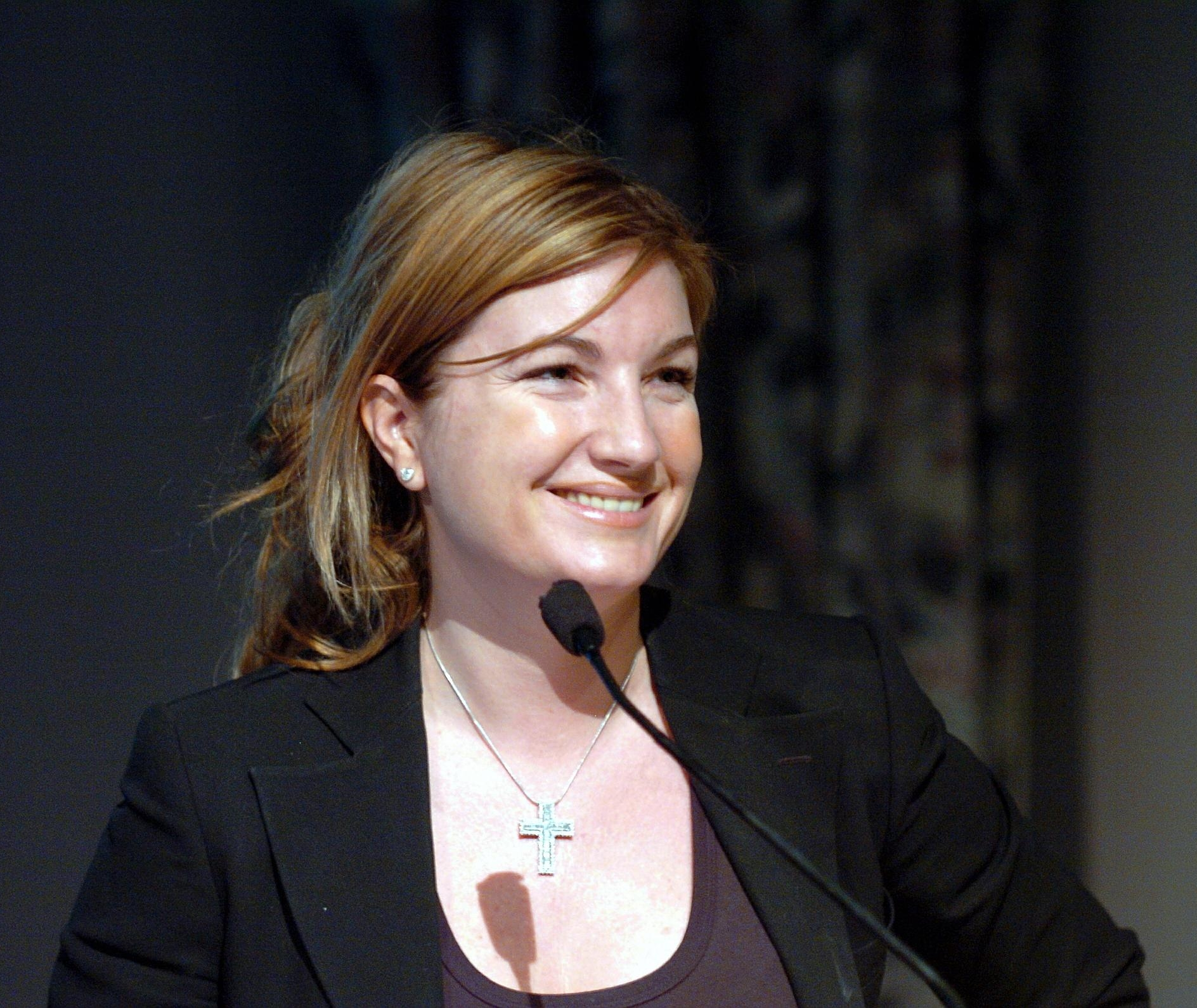 Lead Seminar, guest speaker Karren Brady, the University of Wolverhampton, Wolverhampton, England.